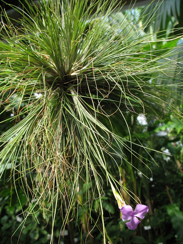 Tillandsia linearis in cultivation at the Botanical Garden of Heidelberg, Germany.